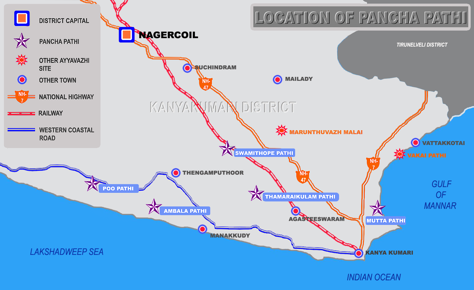 I created (draw) this map.